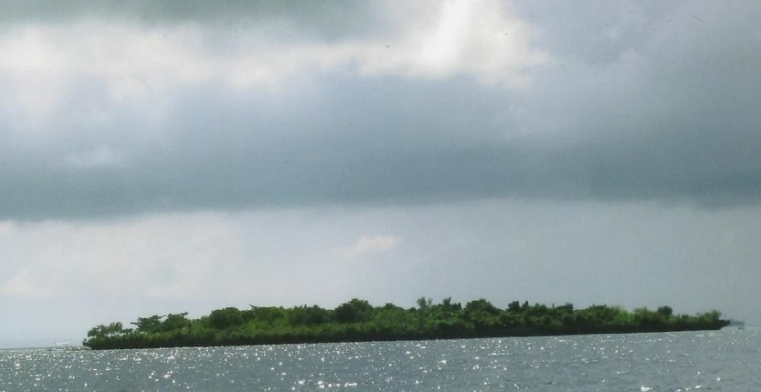 A view of the entire Caohagan Island, Olango Island Group, Cebu, Philippines.